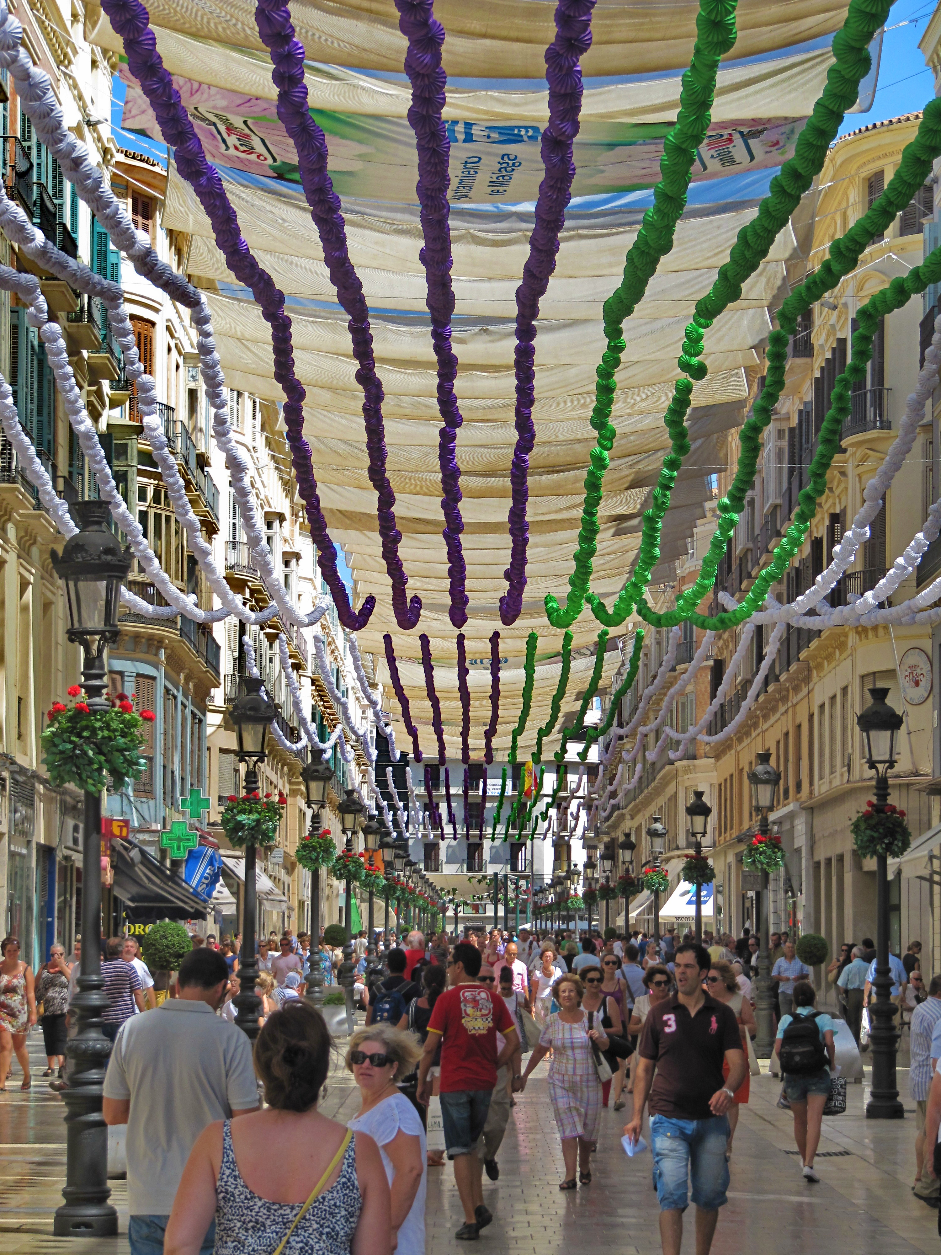 Málaga Fair, Spain.